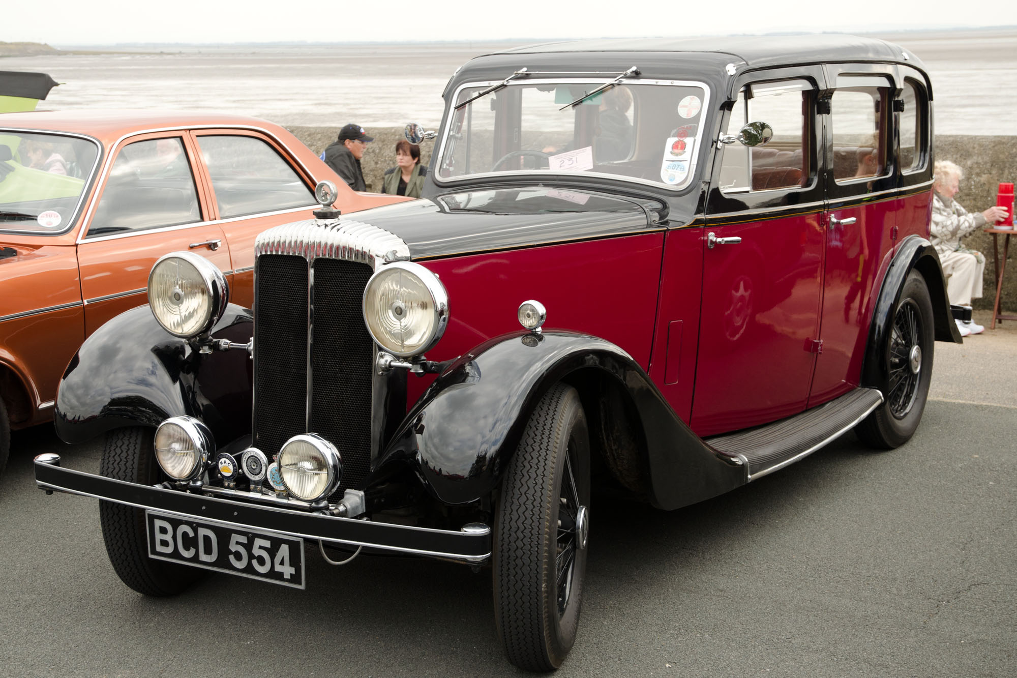 1934 Daimler Fifteen 6-light saloon (DVLA) first registered 3 January 1935, 1939 cc Lytham Classic Car Show 14/09/2014